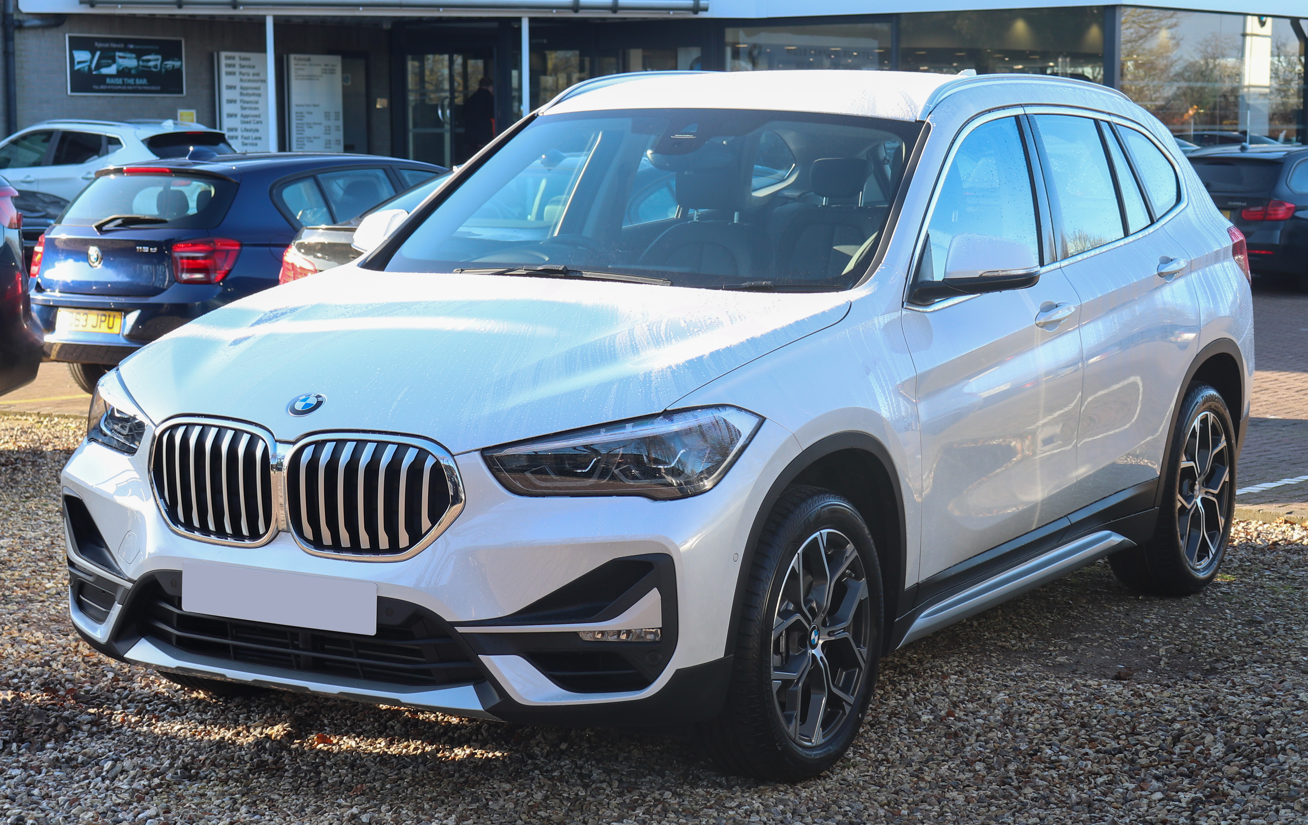 2020 BMW X1 sDrive18i 1.5 Front Taken in Leamington Spa